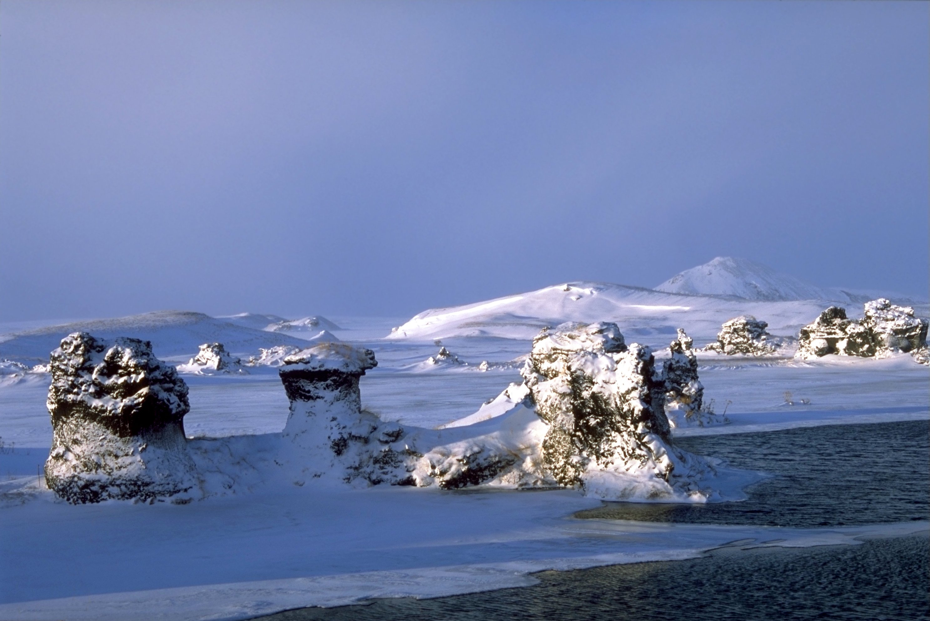 Mývatn in Winter, Iceland Photo was taken using the following technique: Film: Fuji Velvia Lens: 4/35-70 Filter: Body: Minolta 7 Support: Manfrotto 190B Image with Information in English Bild mit Informationen auf Deutsch